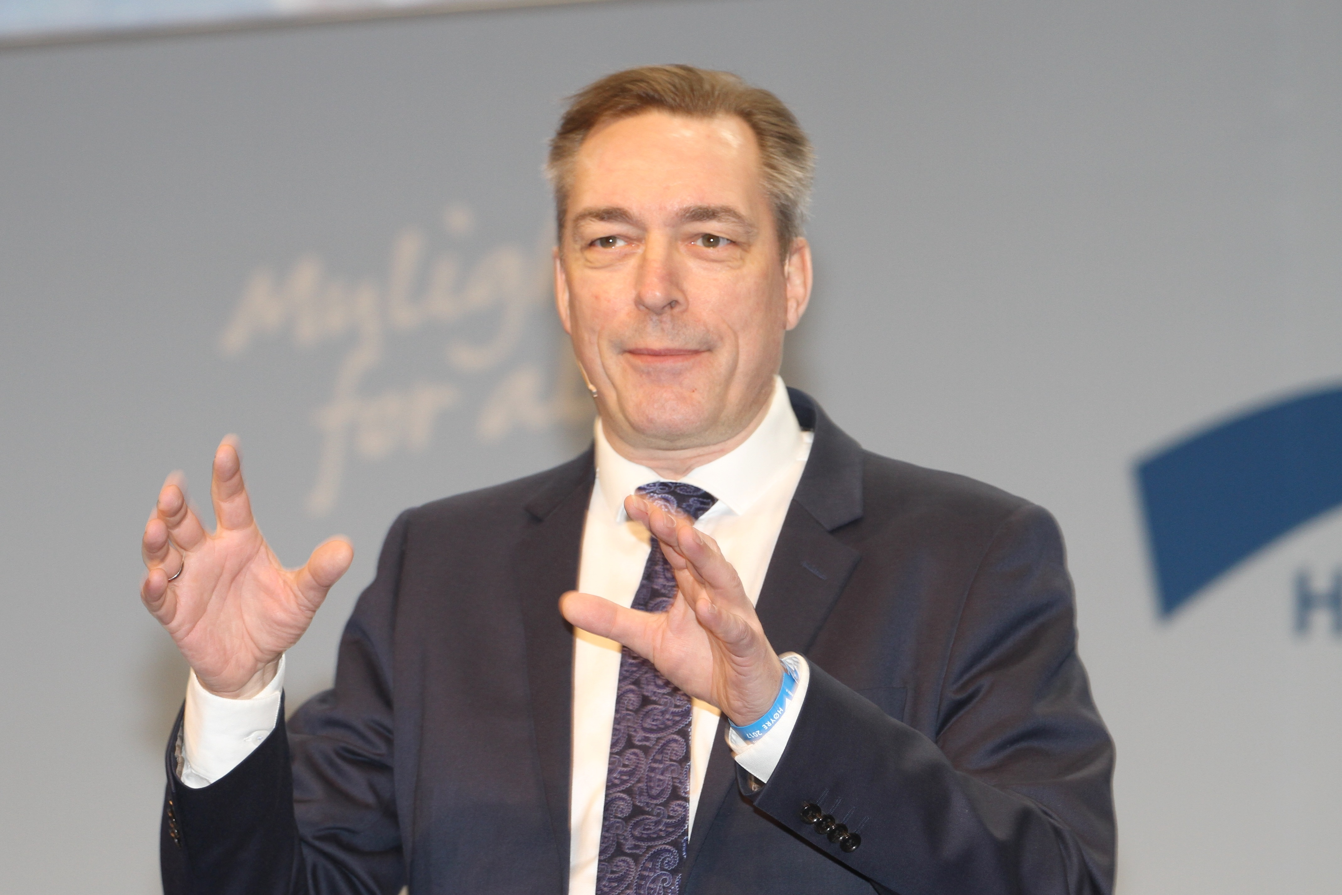 Frank Bakke-Jensen